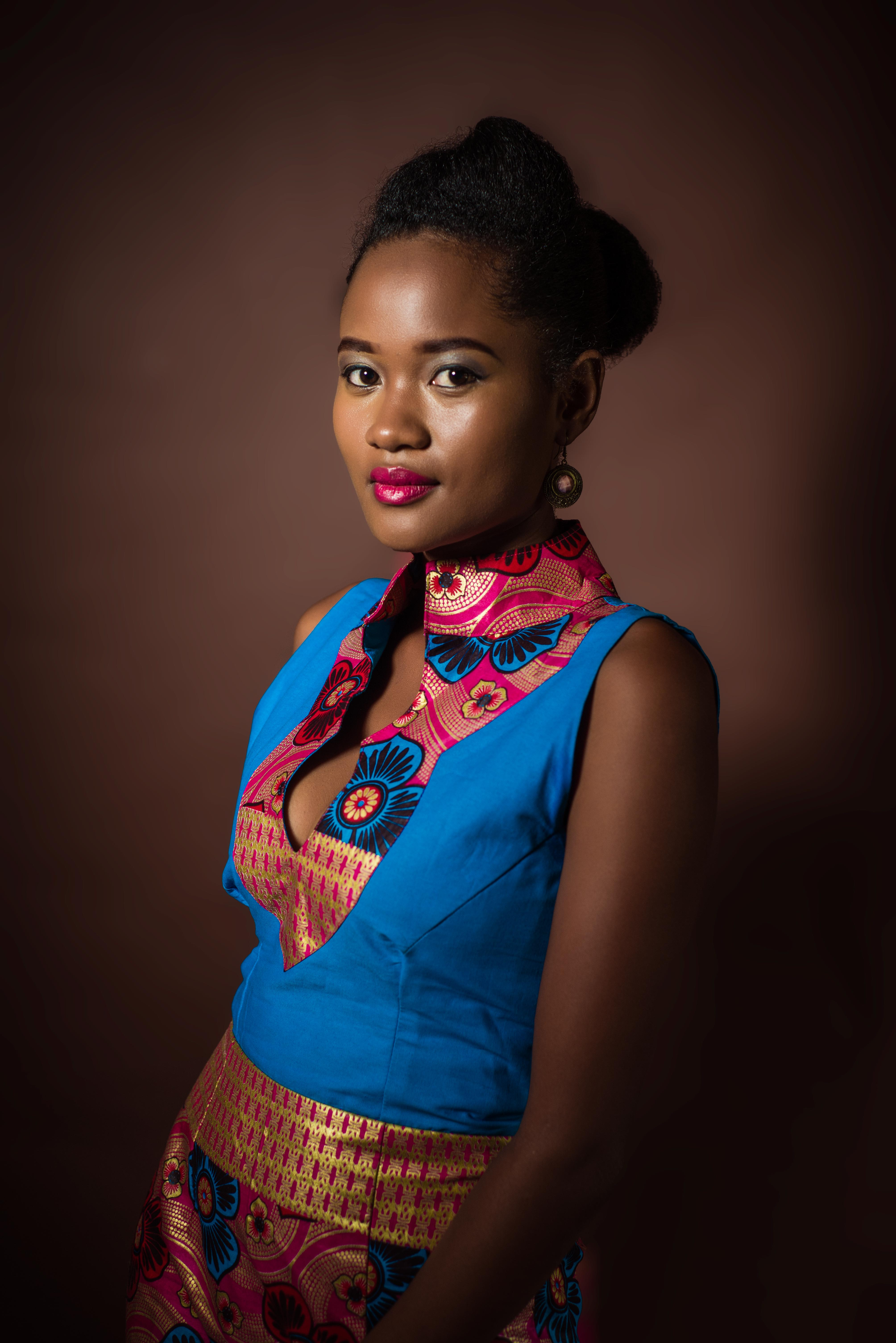 Photo by Stellar Kiwanuka for the AfroForte Project. A project created to showcase Ugandan talent. In this photo, it showcases African Fabric, tailoring, beauty and makeup artistry. This is an image of Cultural Fashion or Adornment from Uganda